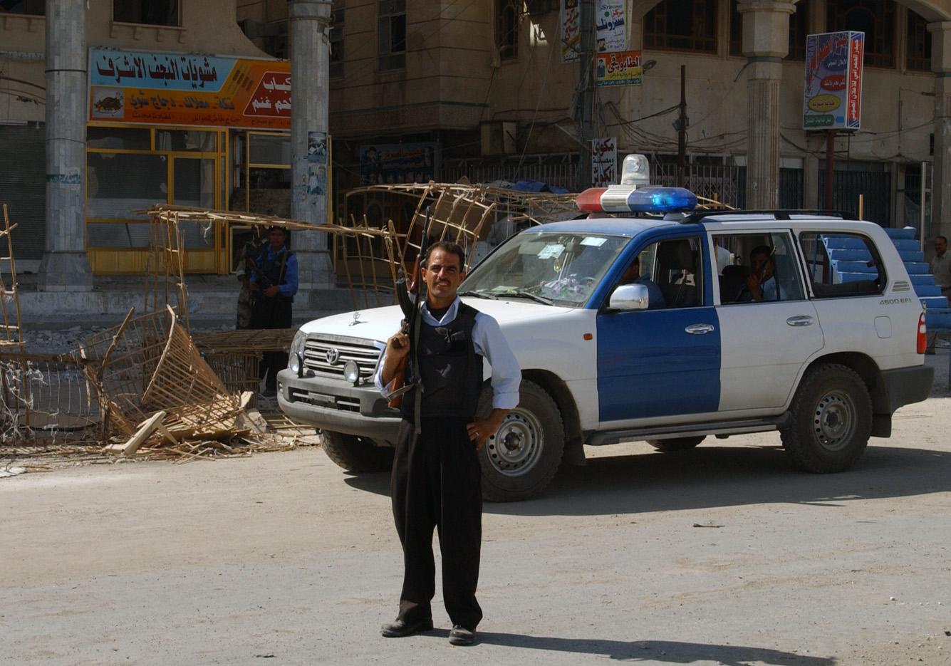 Iraqi Police (IP) officers patrol through downtown An Najaf, Najaf Province, Iraq (IRQ), the day after the Muqtada Militia peacefully left the Imam Ali Shrine. The IP are gathering weapons and are responsible for maintaining order as Najaf rebuilds after weeks of intense combat between the Muqtada Militia and Iraqi and US military forces.